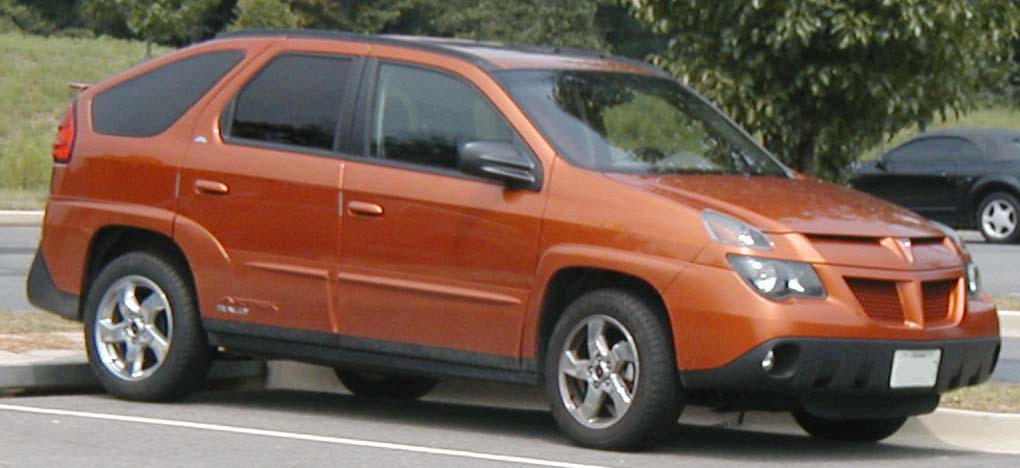 2003-2005 Pontiac Aztek "Rally Edition" photographed in USA.